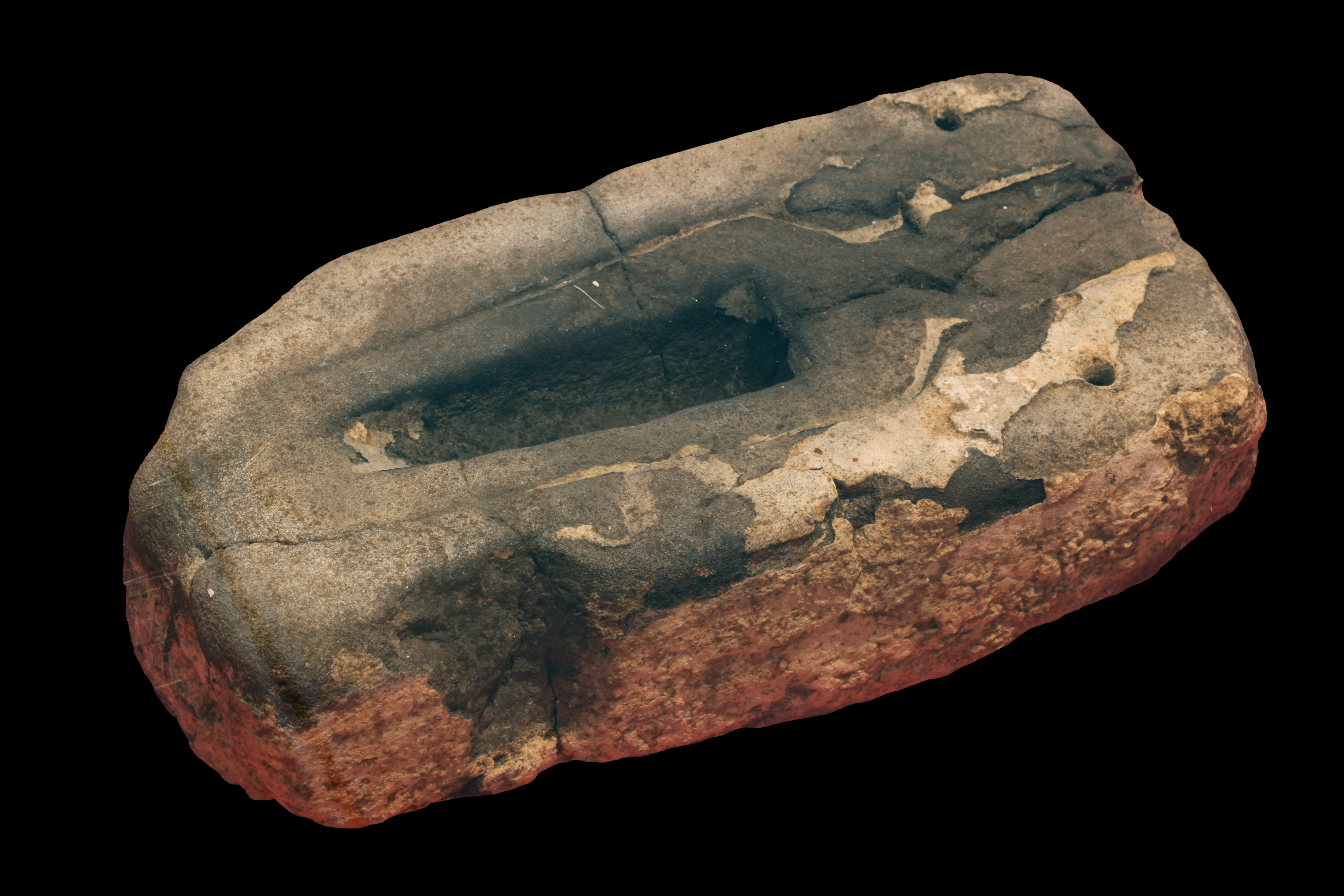 Bronze Age mould to produce spear blades. On display at Estavayer History museum.